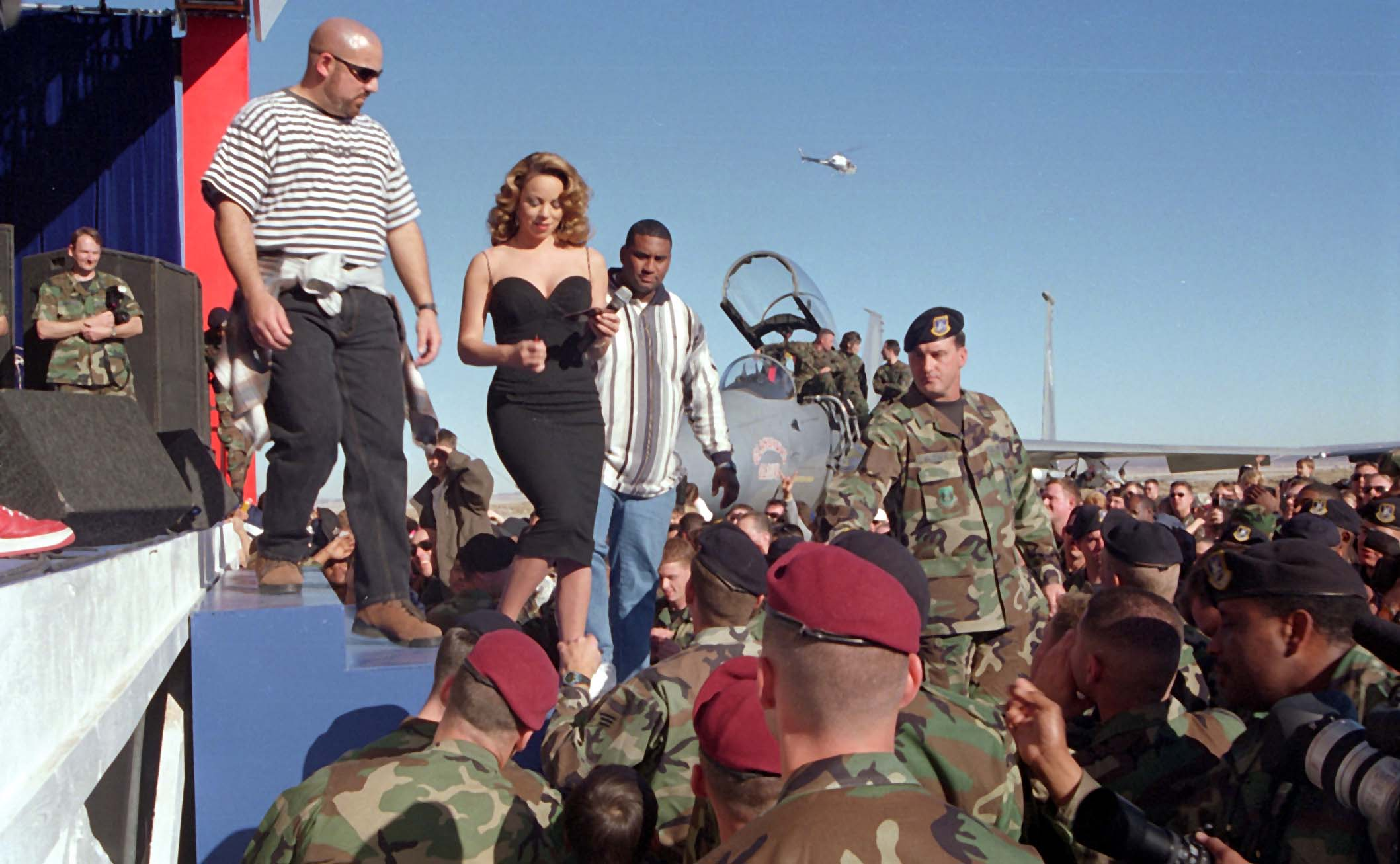 Mariah Carey during filming of the "I Still Believe" music video at Edwards Air Force Base in December 1998.